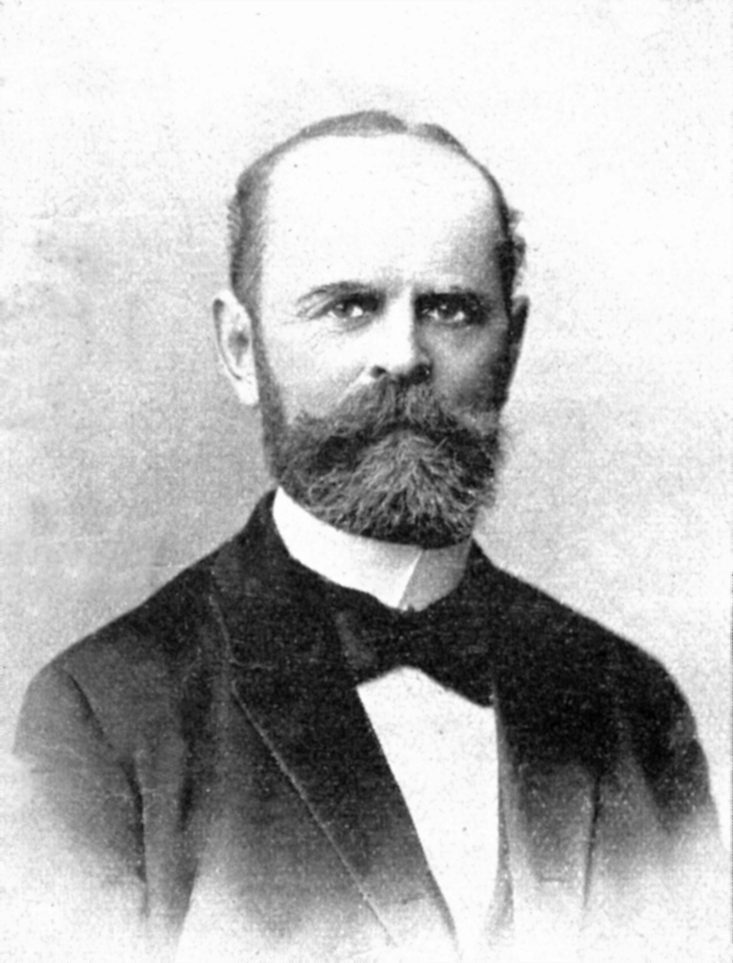 Portrait photography of senator Friedrich Heinrich Bertling (1842–1914)